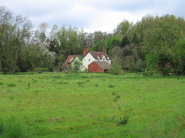 Bushwood Hall. This moated building is seen from the adjacent fields